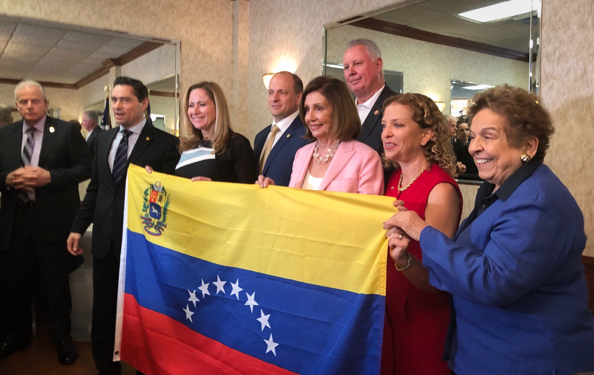 House Democrats stand with the people of Venezuela. It was an honor to join Representatives Debbie Wasserman Schultz, Donna Shalala, Debbie Mucarsel-Powell, Albio Sires and the U.S. Venezuelan community in FL today to fight for TPS, for human rights and for democracy in Venezuela.